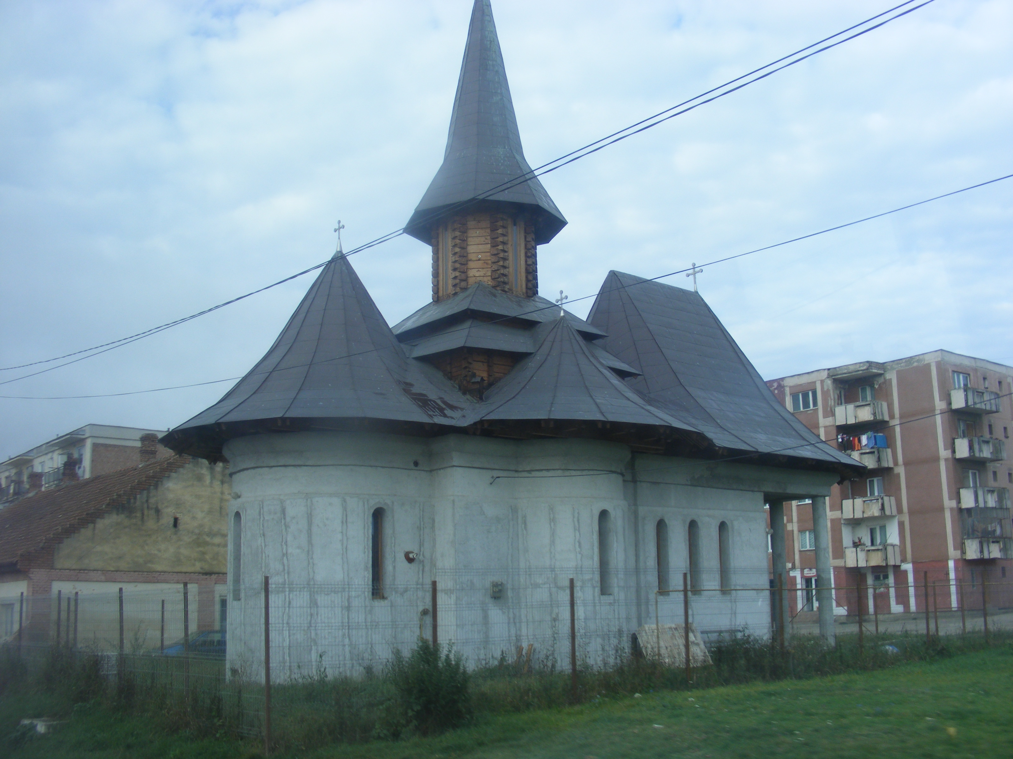 An ortodoxian church in Marosszentimre (Sântimbru)